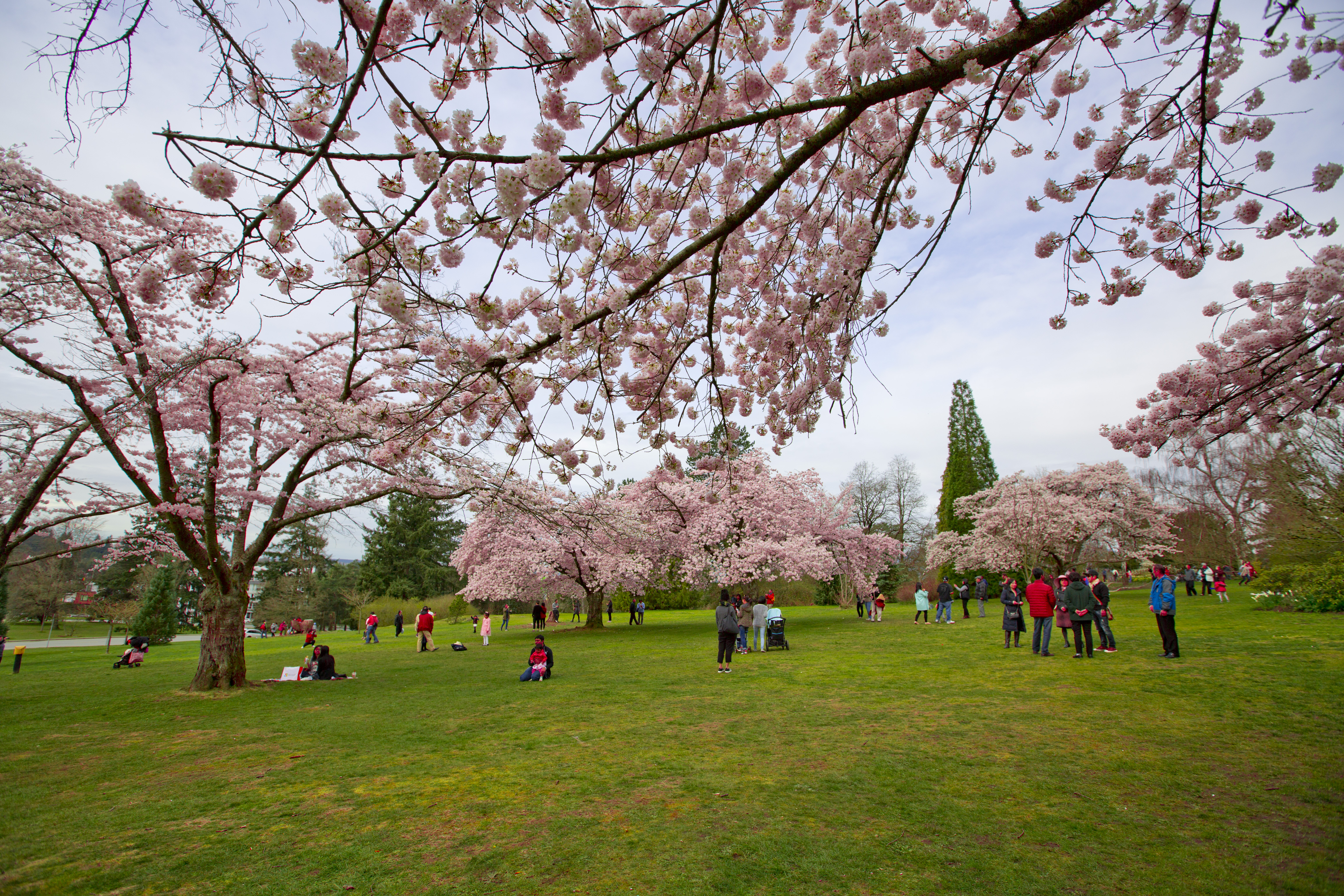 桜 - Sakura